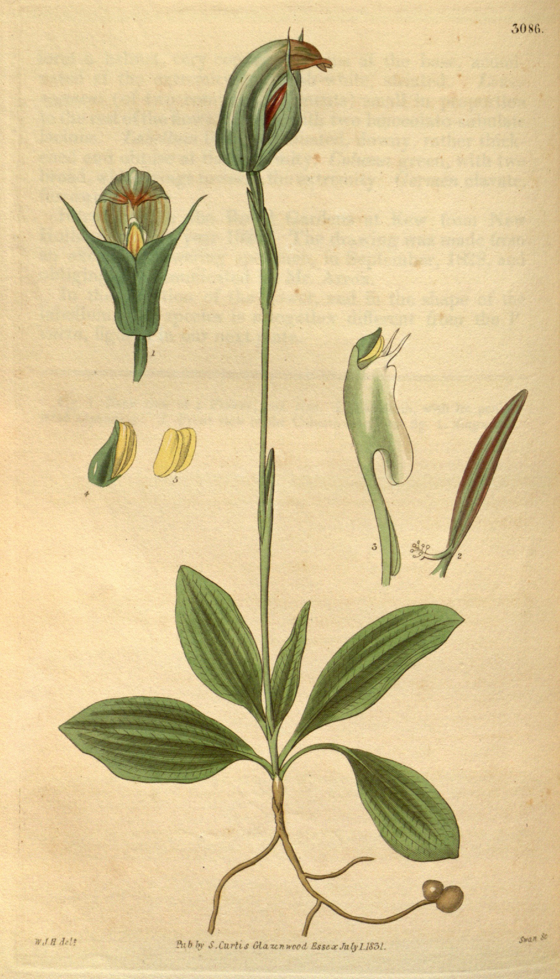 Illustration of Pterostylis curta